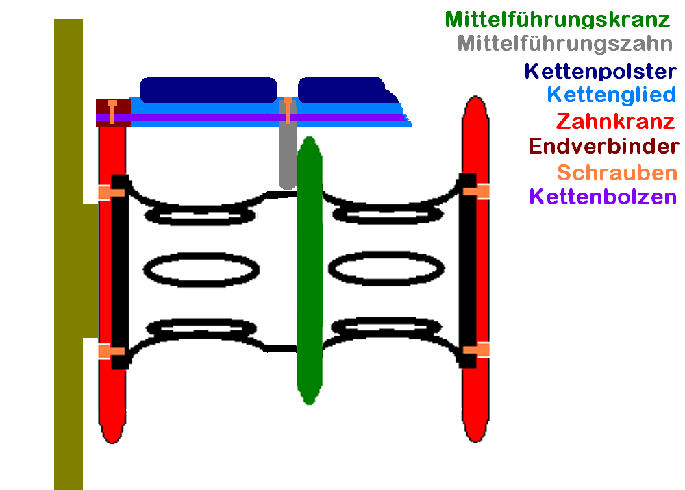 tank track power wheel in section (track type end-connectet)